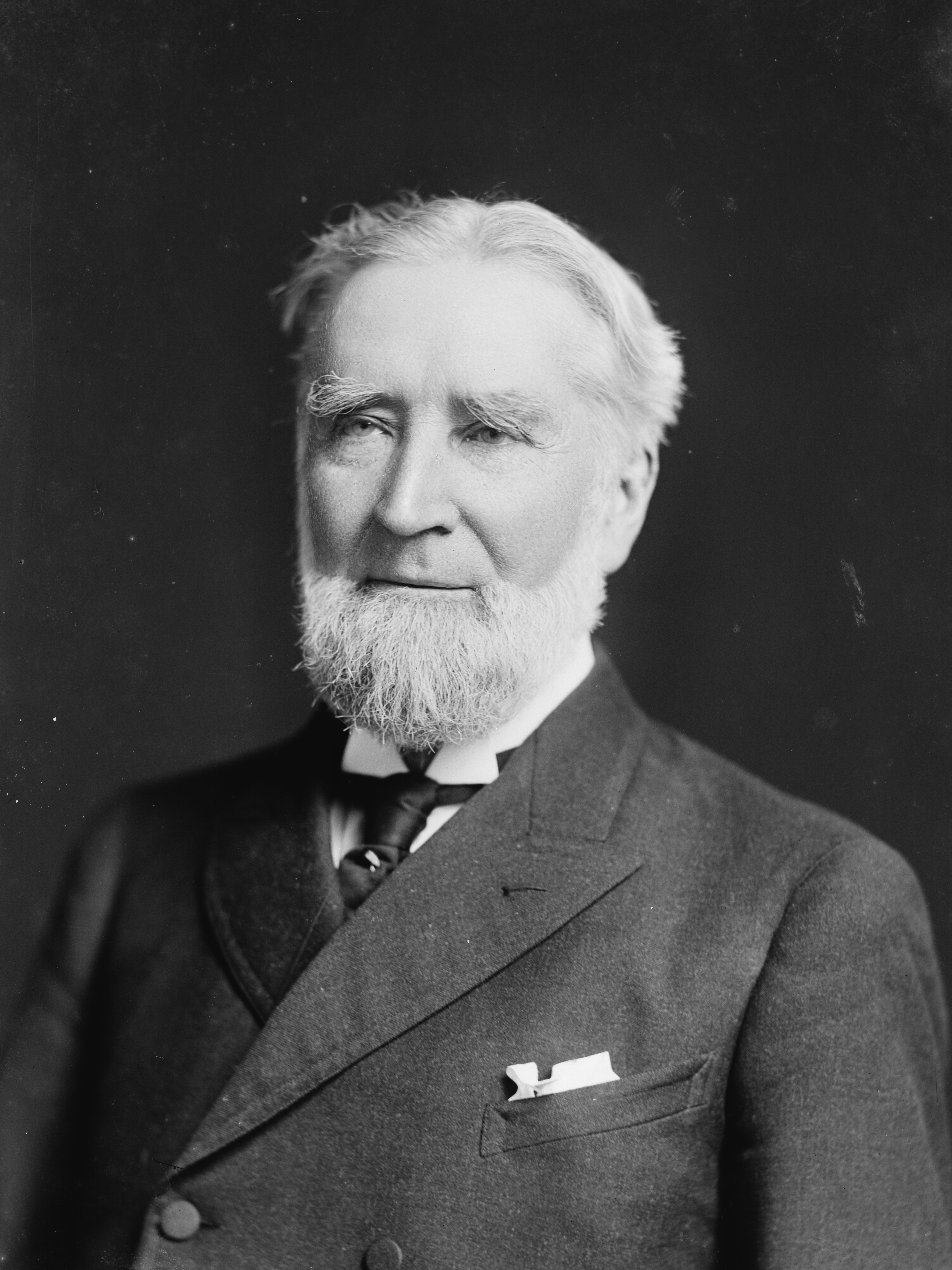 Judge Alexander Burton Hagner from C. M. Bell Studio